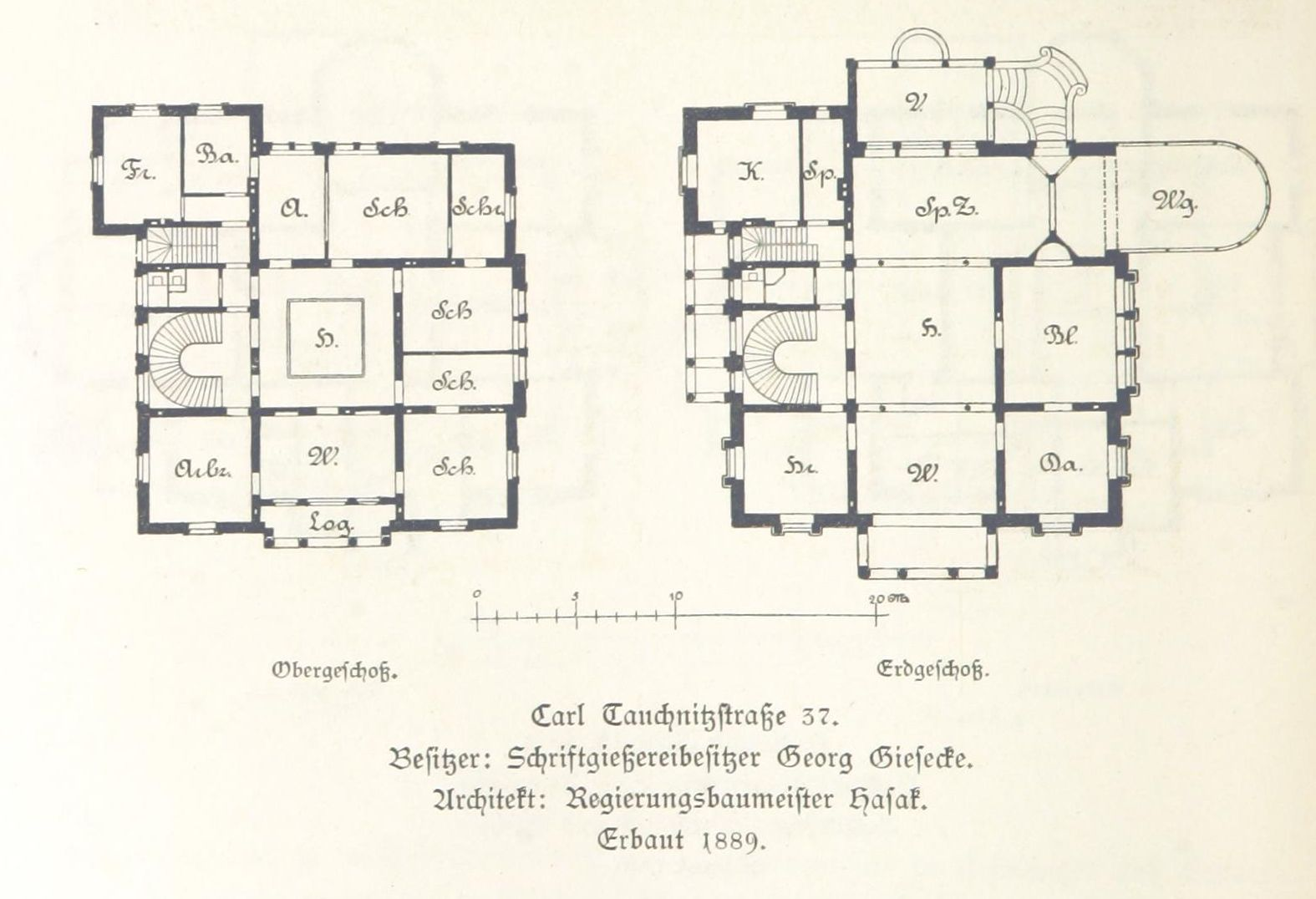 Architectural drawing of Villa Georg Giesecke, Leipzig, Germany